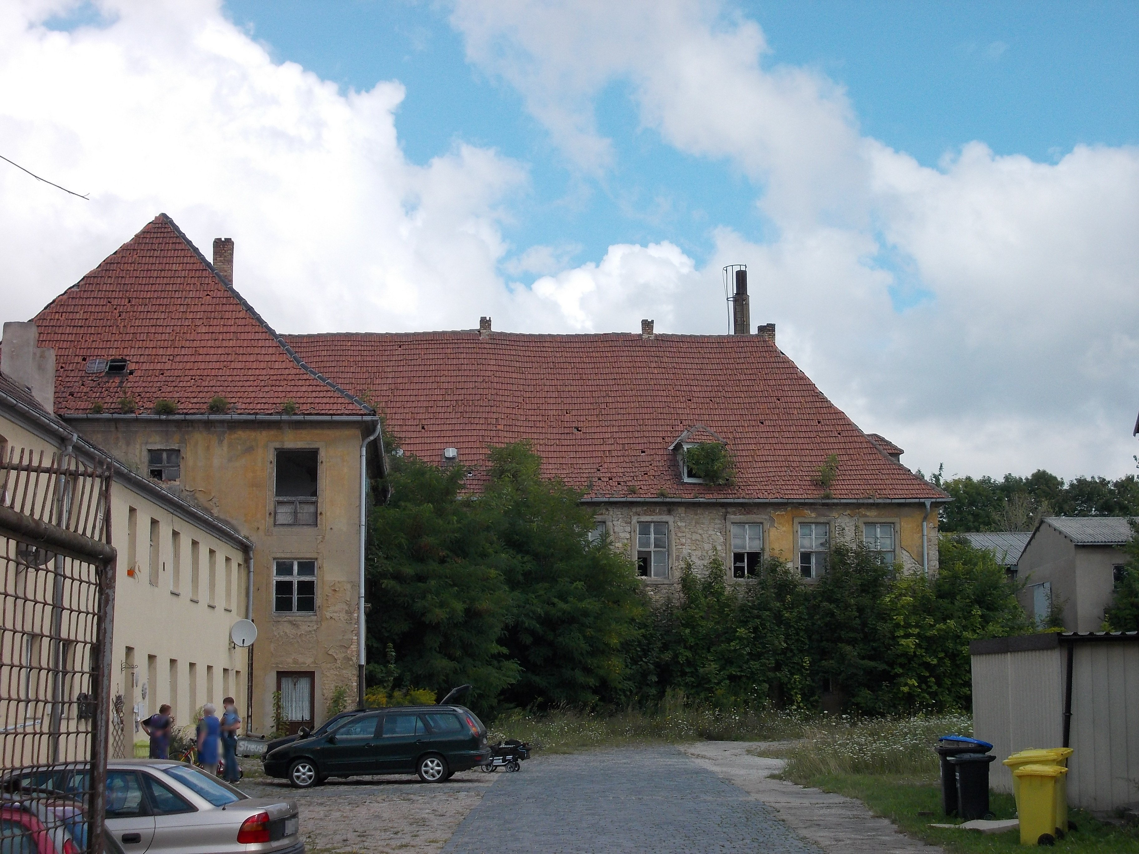 Würdenburg manor house in Teutschenthal (district of Salekreis, Saxony-Anhalt)